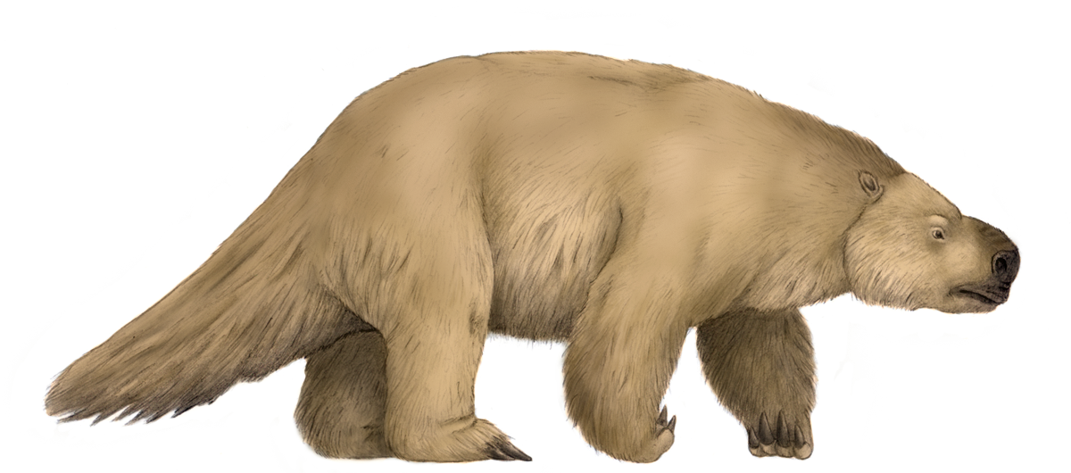 Crop of file in filename